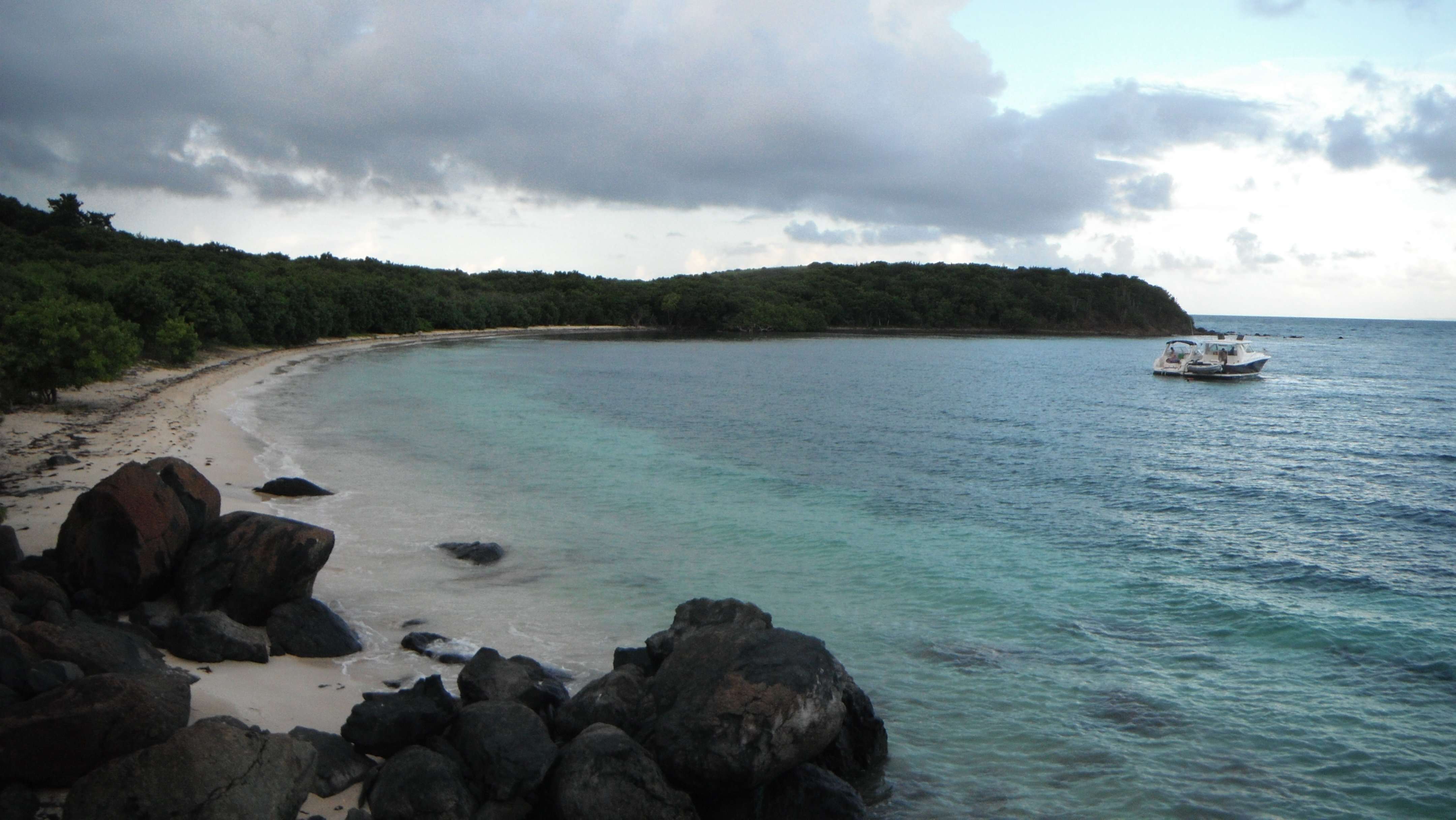 This photo was taken from a rock formation showing the small beach at the Pineiro Island in the eastern part of Puerto Rico. My boat is in the corner of the Photograph.